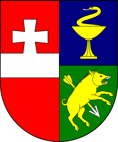 Coat of arms (shield only) of Cölestin Cardinal Ganglbauer, archbishop of Vienna (1881 - 1889).